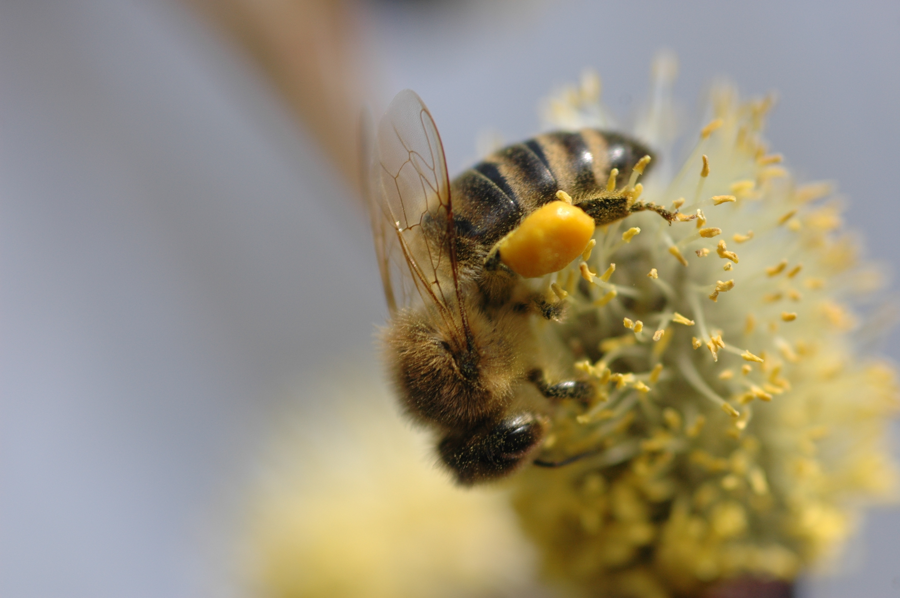 Honey bee